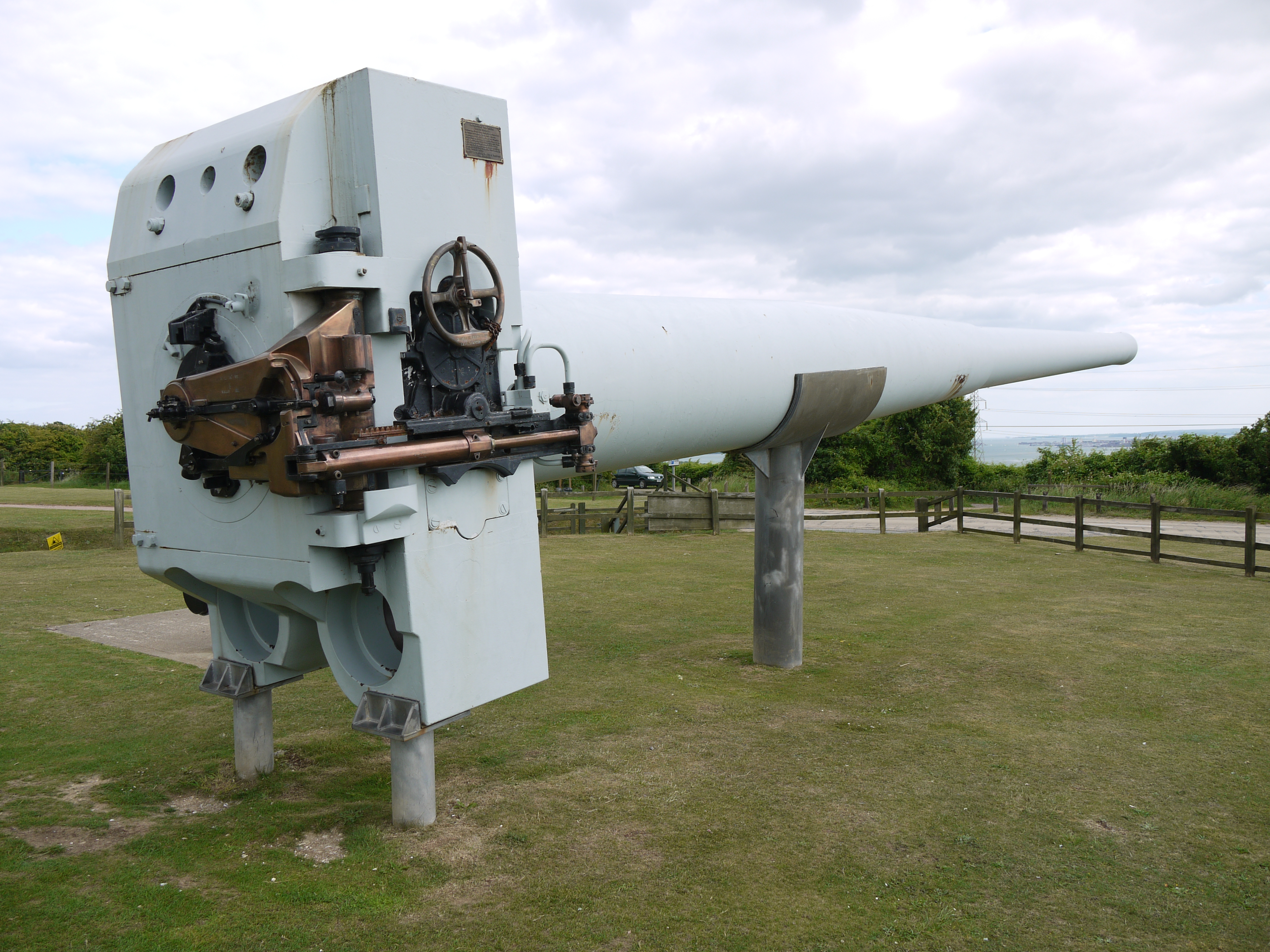 Photo of a BL 14 inch Mk VII naval gun outside fort nelson